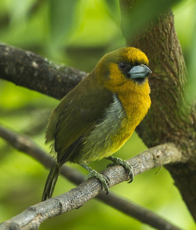 Prong-billed Barbet - Cinchona - Costa Rica_S4E0218